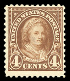 1923 stamp of Martha Washington